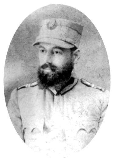 Romanian writer Ioan Missir during World War I.